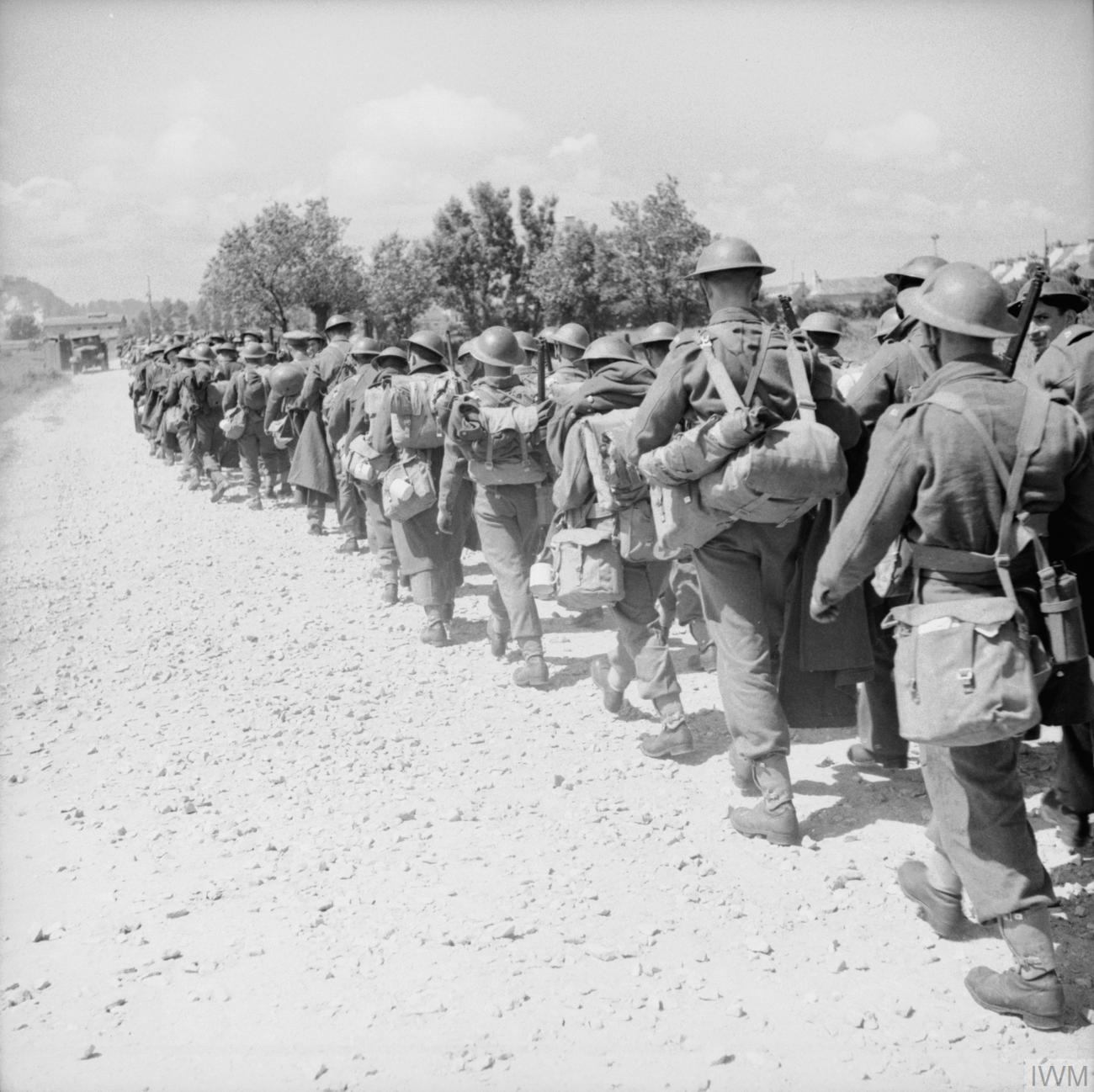 The British Expeditionary Force (bef) in France 1939-1940 The Evacuation of the BEF from France, June 1940: A column of British soldiers retreating to the Channel ports.